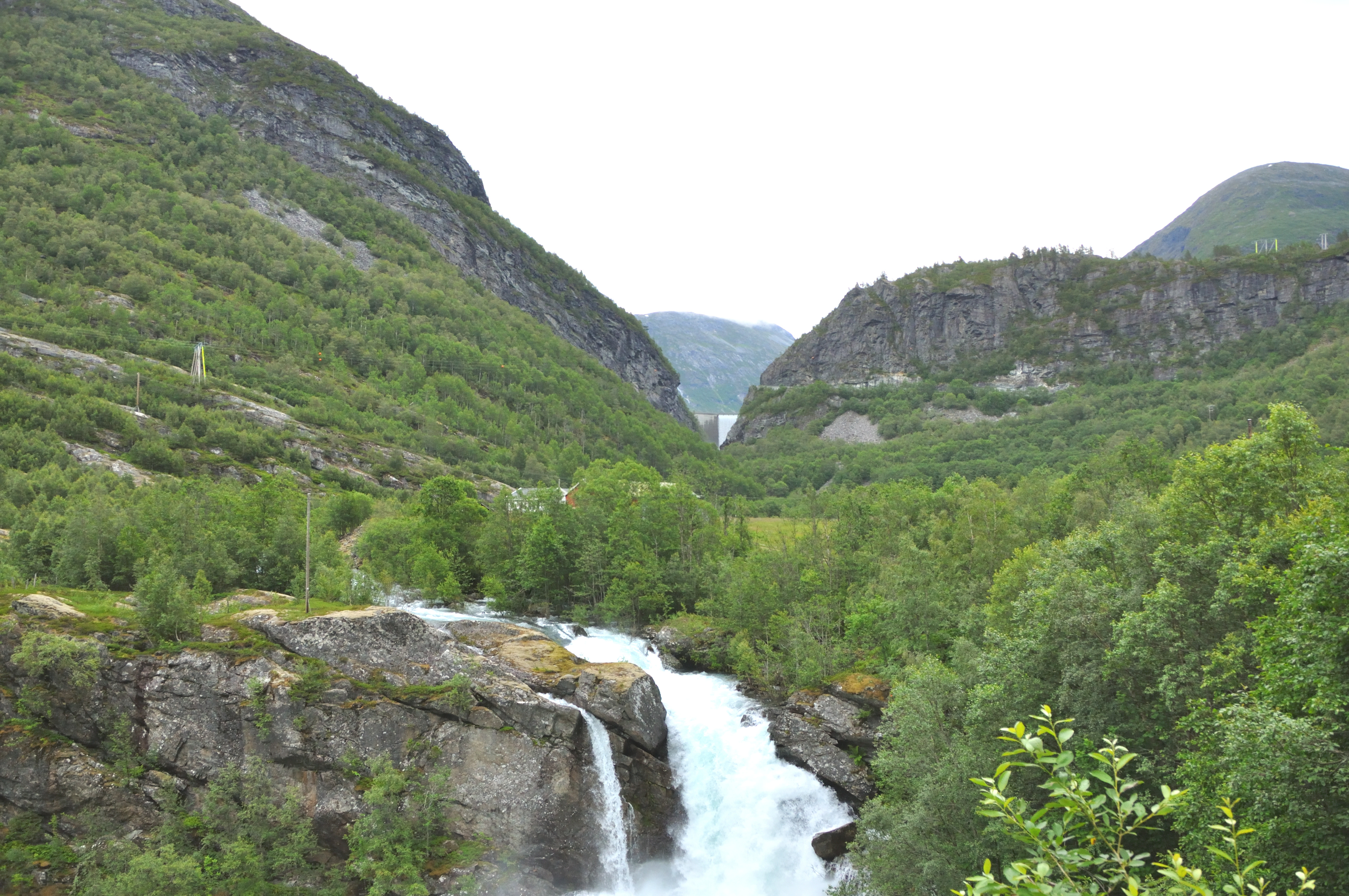 Zakarias reservoir in Tafjord, overflow july 2019, seen from valley below with settlement.